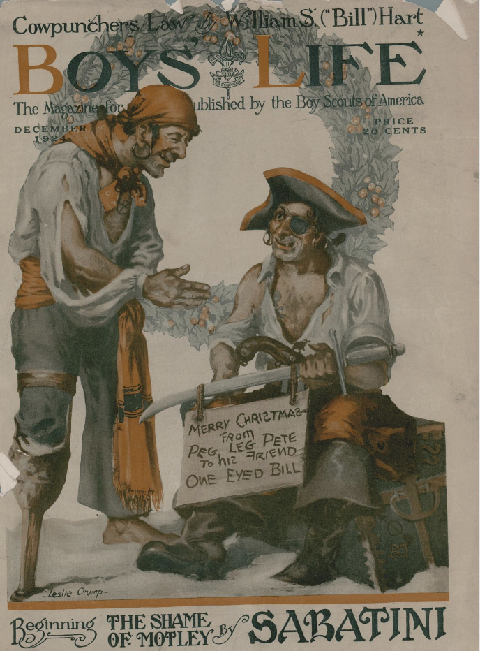 Cover of Boys Life, December 1924